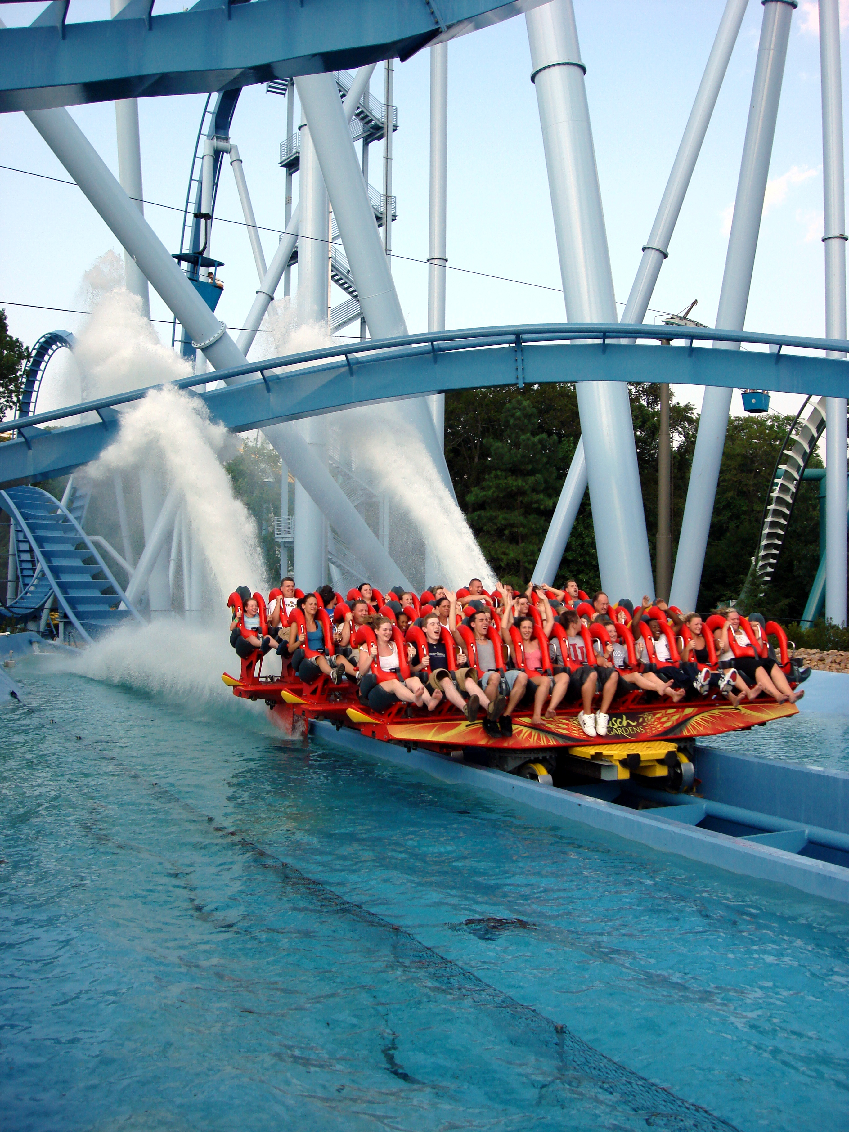 Griffon's Splashdown element